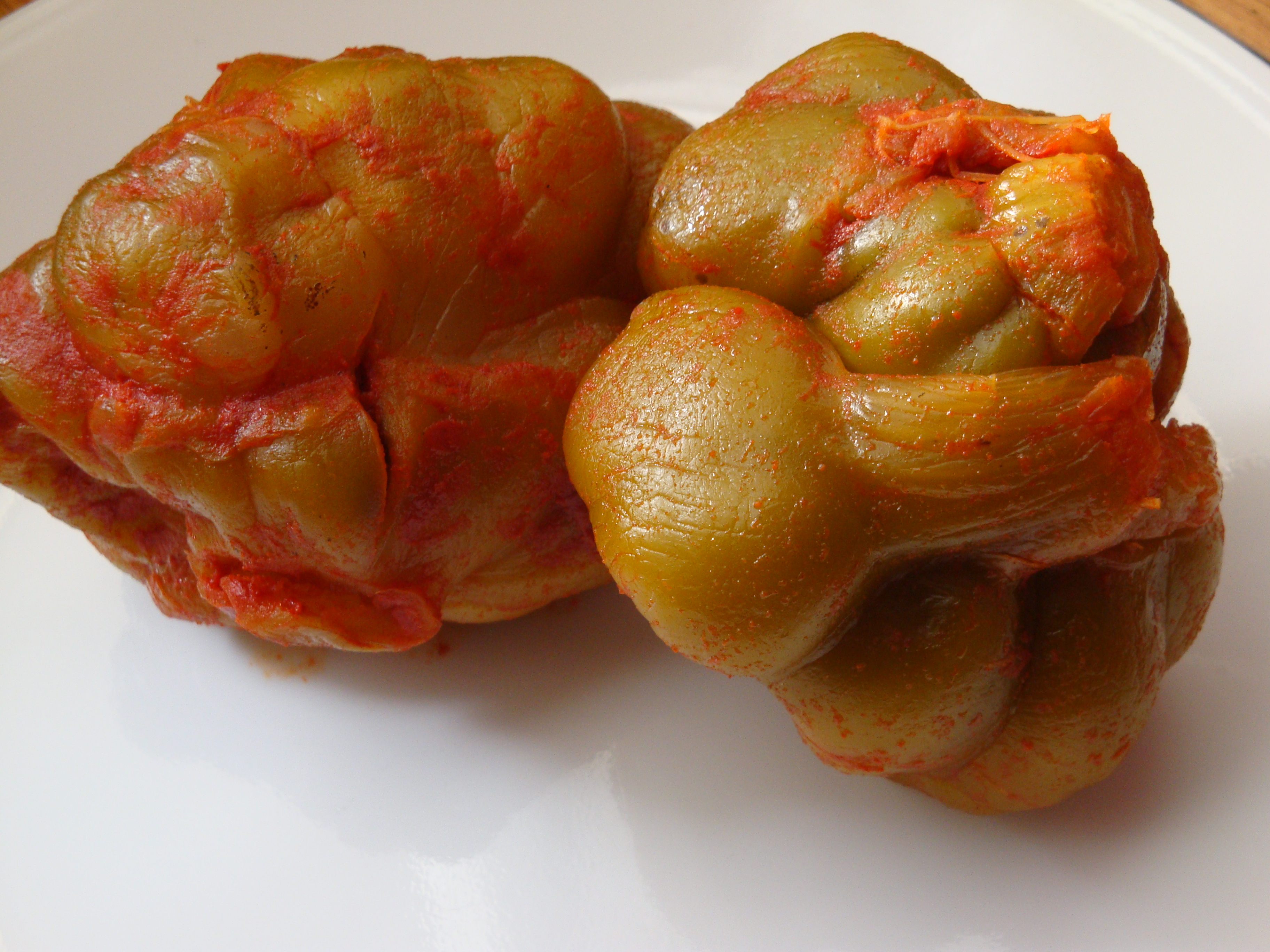 Two heads of whole zha cai with chilli paste still on the heads